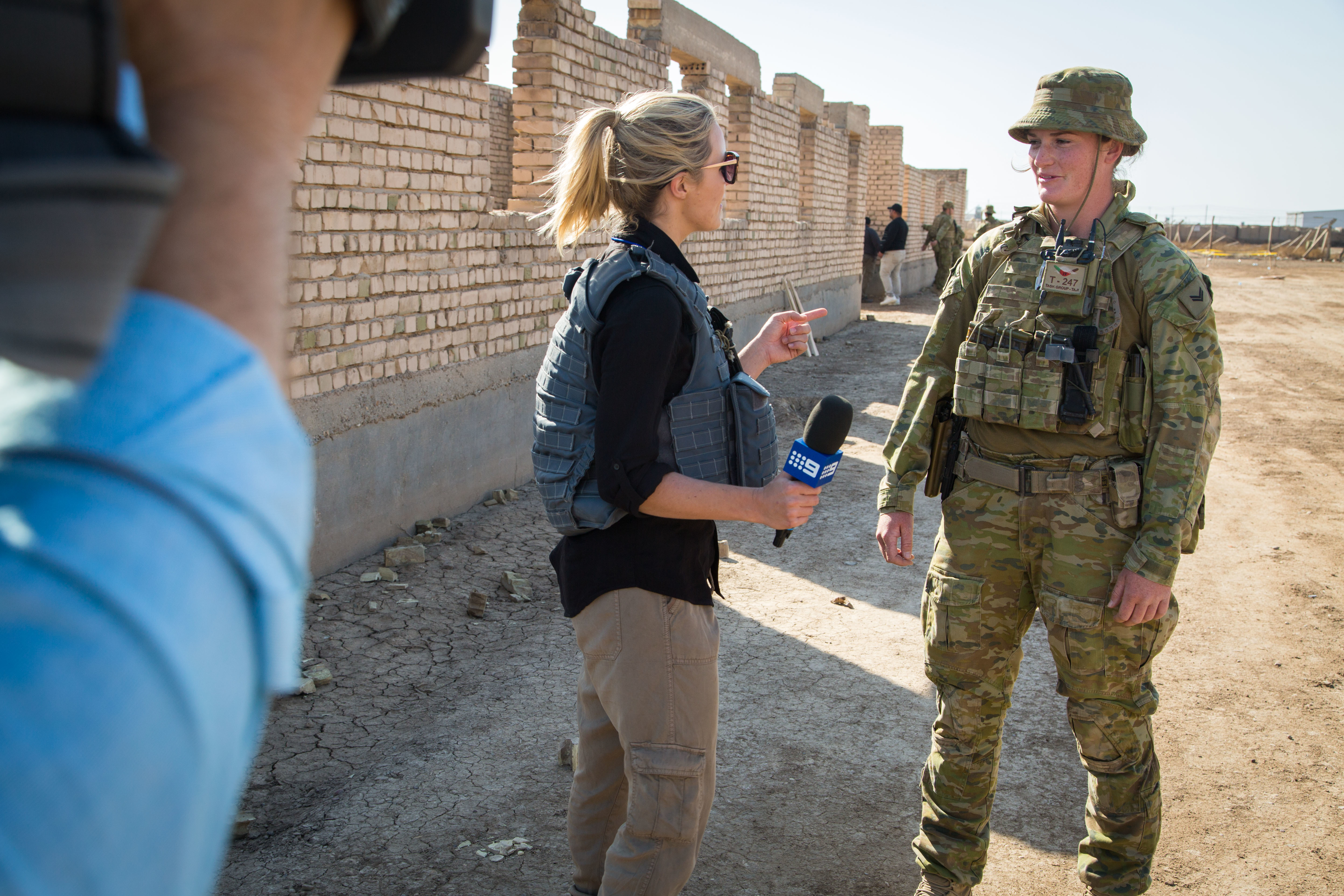 Australian media interviews an Australian army trainer at Camp Taji, Iraq, Feb. 26, 2017. The media reported progress Coalition forces have made training ISF basic combat skill skills in support of Combined Joint Task Force – Operation Inherent Resolve, the global Coalition to defeat ISIS in Iraq and Syria. (U.S. Army photo by Spc. Christopher Brecht)